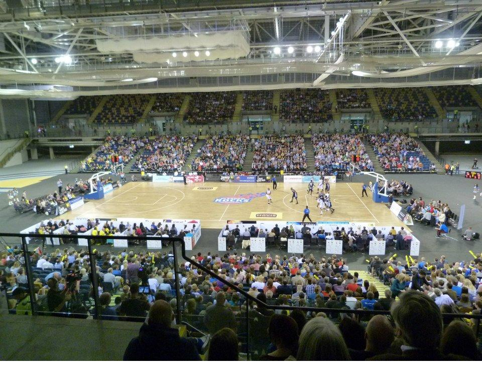 Photo of the court and East stand of the new Emirates arena on the night of the Glasgow Rocks' first game against the Newcastle Eagles.